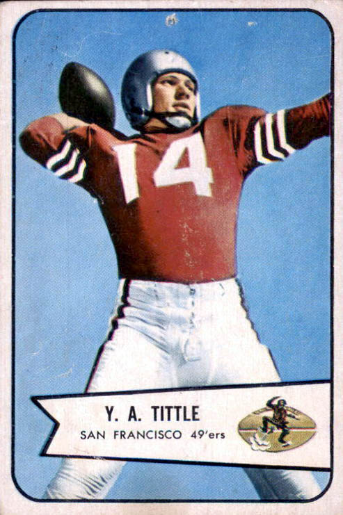 National Football League quarterback Y.A. Tittle depicted in 1954 with the San Francisco 49ers on a Bowman Gum football card